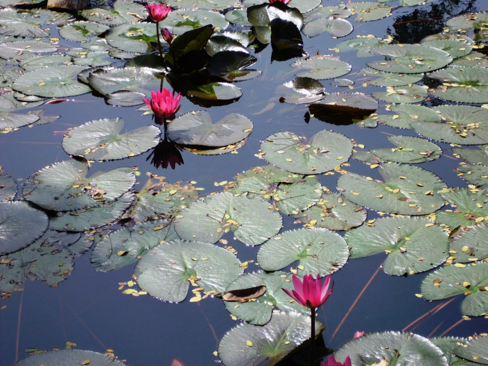 Nicco Park